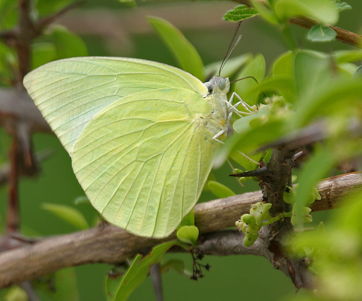 Common Emigrant Catopsilia pomona on Canthium coromandelicum - Coromandel Canthium • Marathi: किरमा Kirma, Kadbar • Tamil: Nallakkarai, Kudiram, Sengarai • Malayalam: Kantankara, Niruri, Serukara • Telugu: Sinnabalusu, Balusu • Kannada: Karemullu, Ollepode • Oriya: Tutidi • Konkani: Kayili • Sanskrit: Nagabala, Gangeruki in Keesara, Rangareddy district, Andhra Pradesh, India.